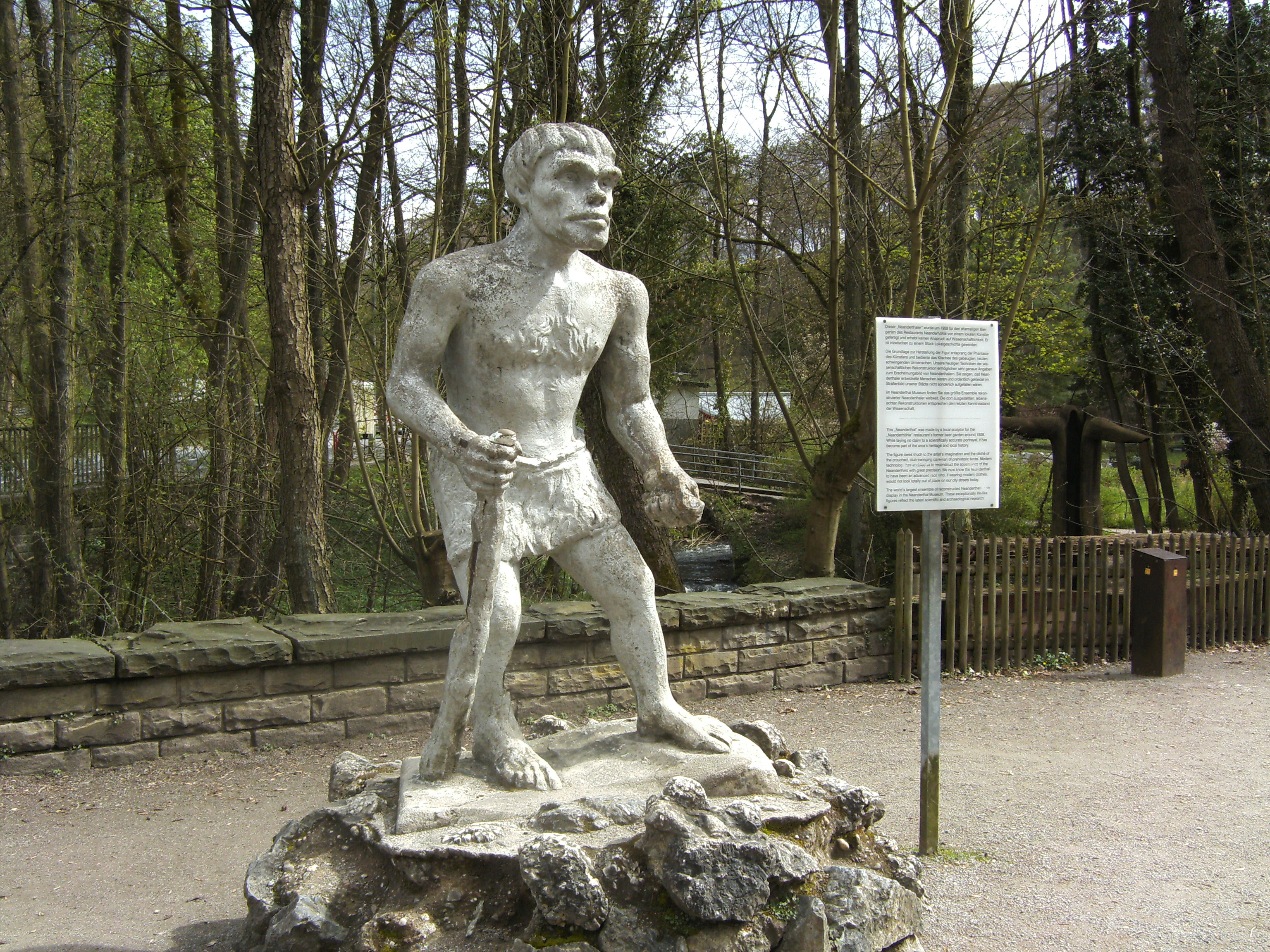 Sculpture (1928) facing the Neanderthal museum. The text says: "This „Neanderthal“ was made by a local sculptor for the "Neanderhöhle" restaurant’s former beer garden around 1928. While laying no claim to a scientifically accurate portrayal, it has become part of the areas’s heritage and local history. The figure owes much to the artist’s imagination and the cliché of the crouched, club-swinging caveman of prehistoric times. Modern technology has enabled us to reconstruct the apperarance of the Neanderthals with great precision. We now know the Neanderthal to have been an advanced race who, if wearing modern clothes, would not look totally out of place on our city streets today. The world’s largest ensemble of reconstructed Neanderthals is on display in the Neanderthal Museum. These exceptionally life-like figures reflect the latest scientific and archaeological research."